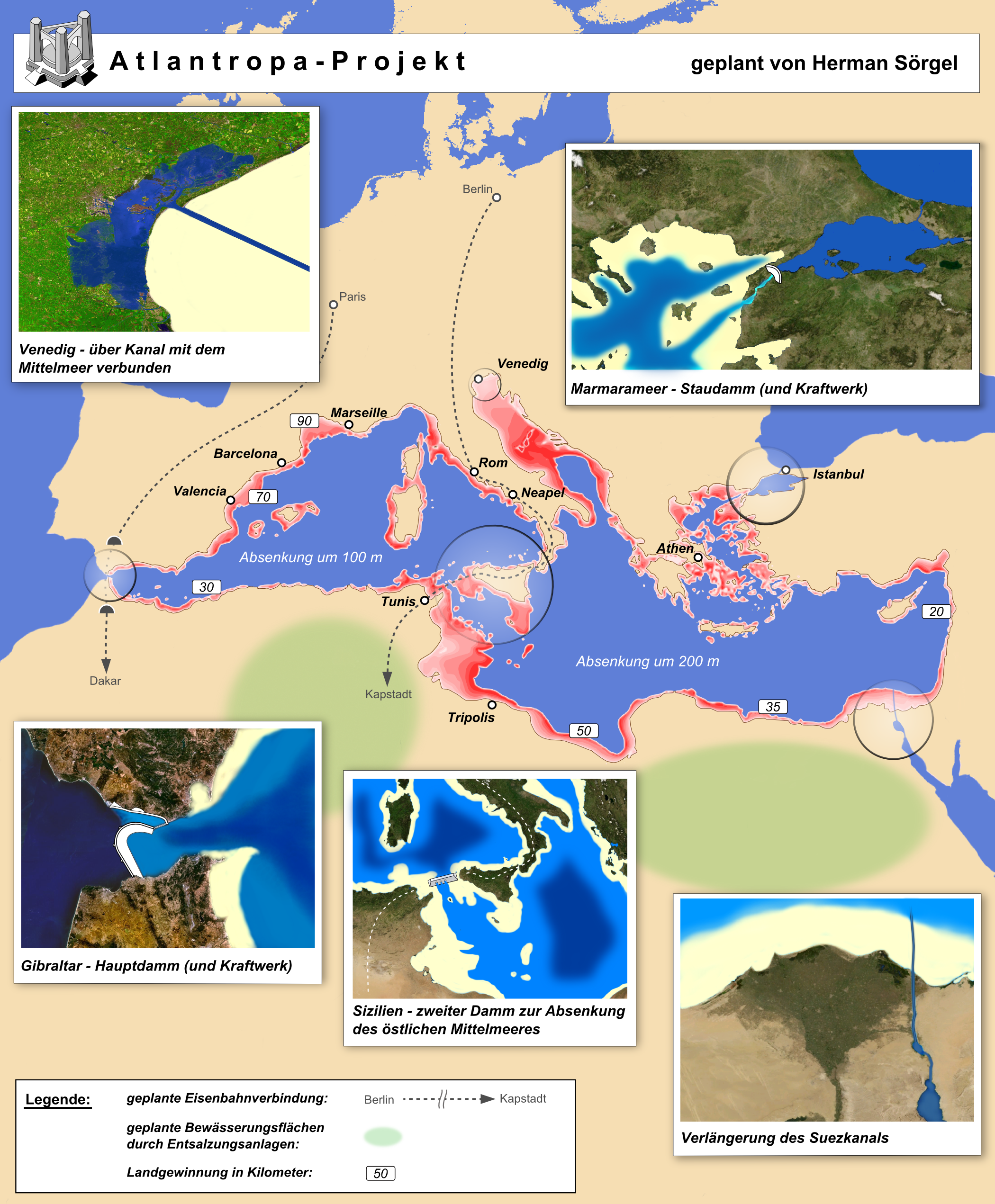 Map of the Atlantropa Projekt